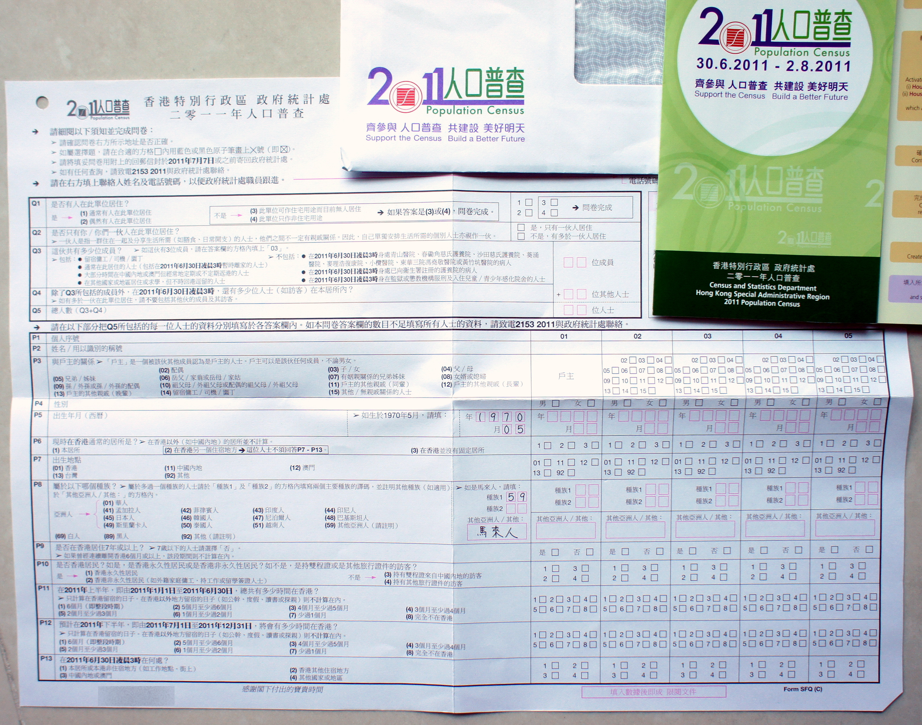 Self-administered questionnaire (short version) of the Hong Kong Population Census 2011.